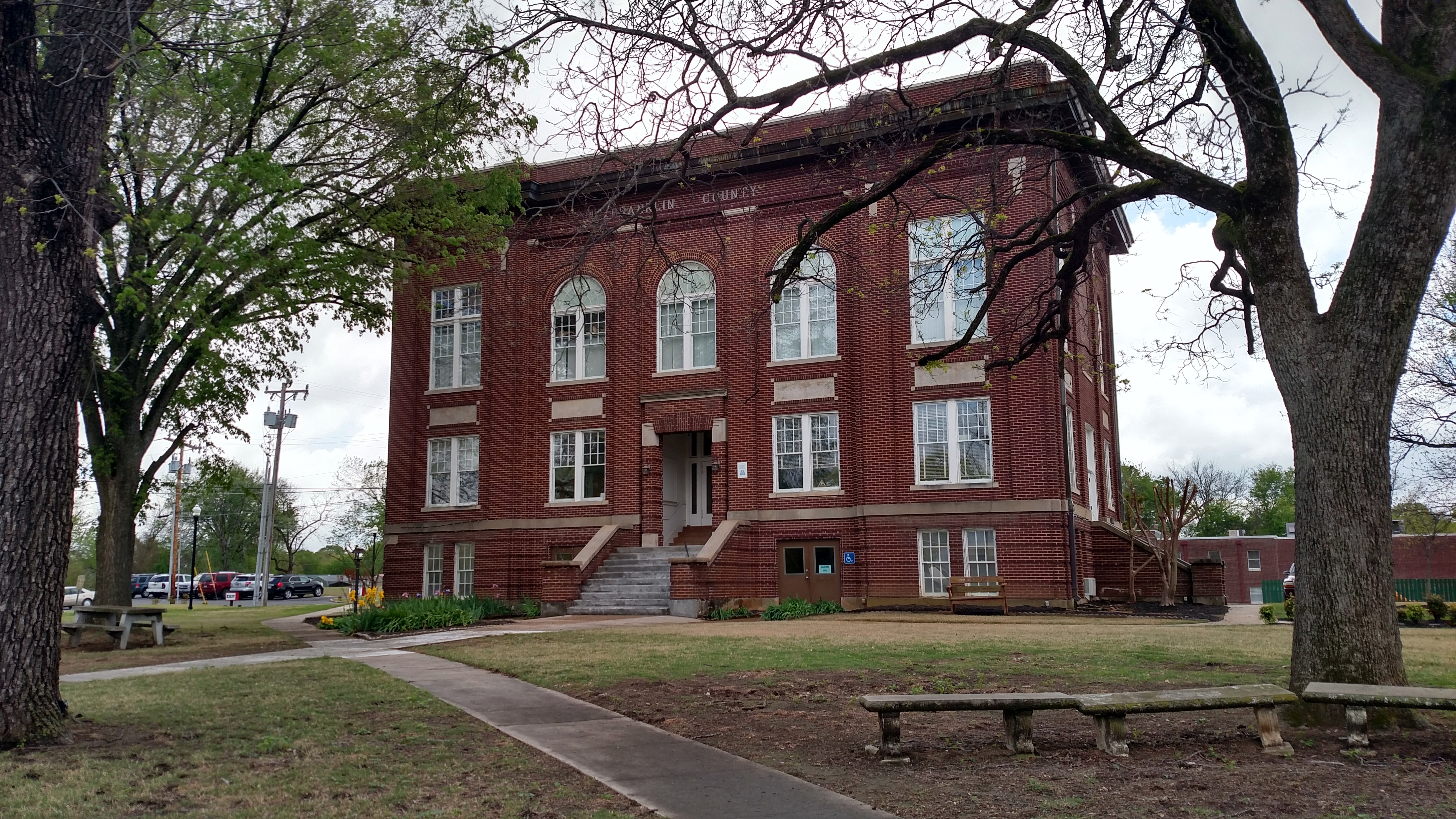 Front view